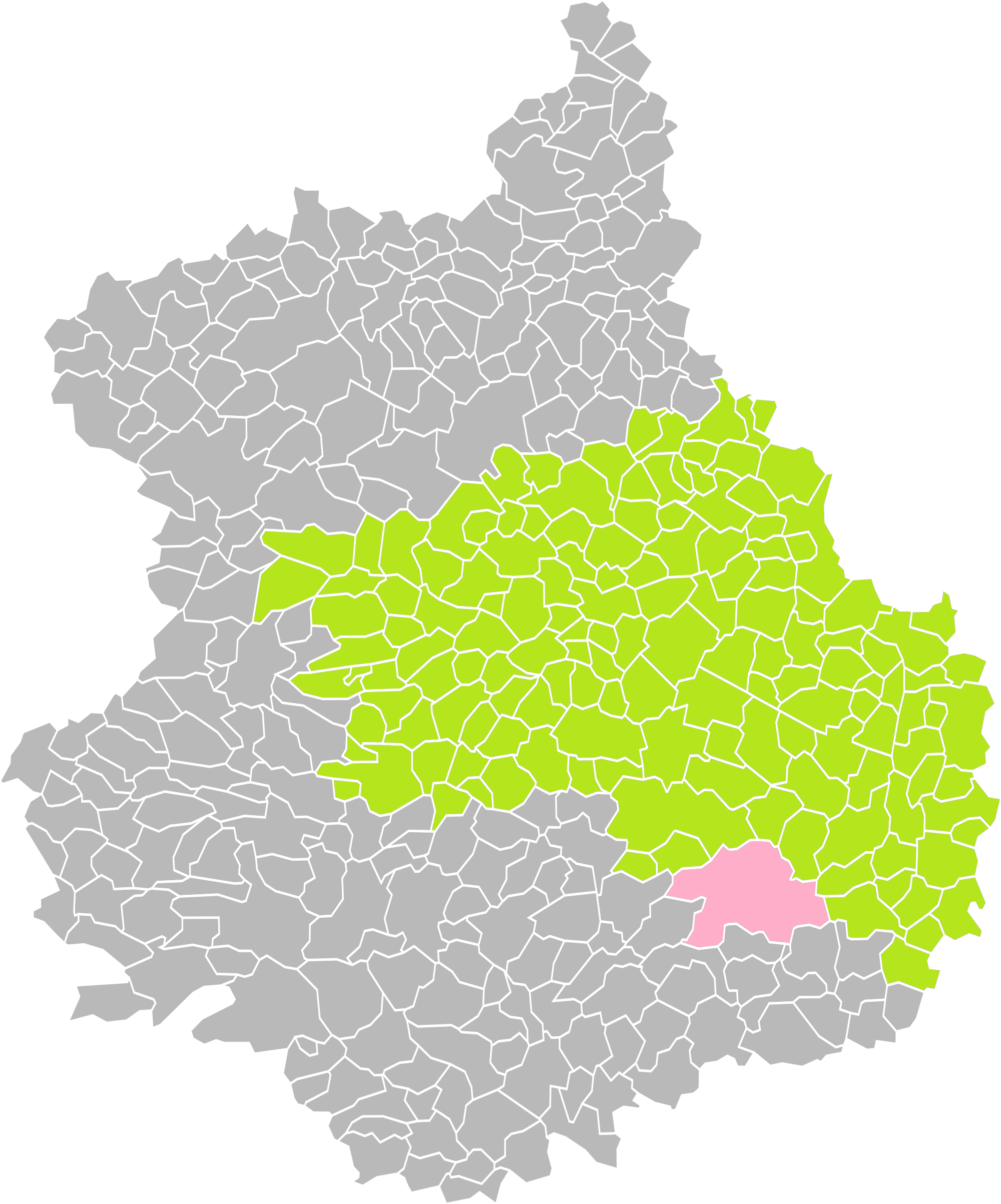 Location of the commune of Éole-en-Beauce in the arrondissement of Chartres (Eure-et-Loir)